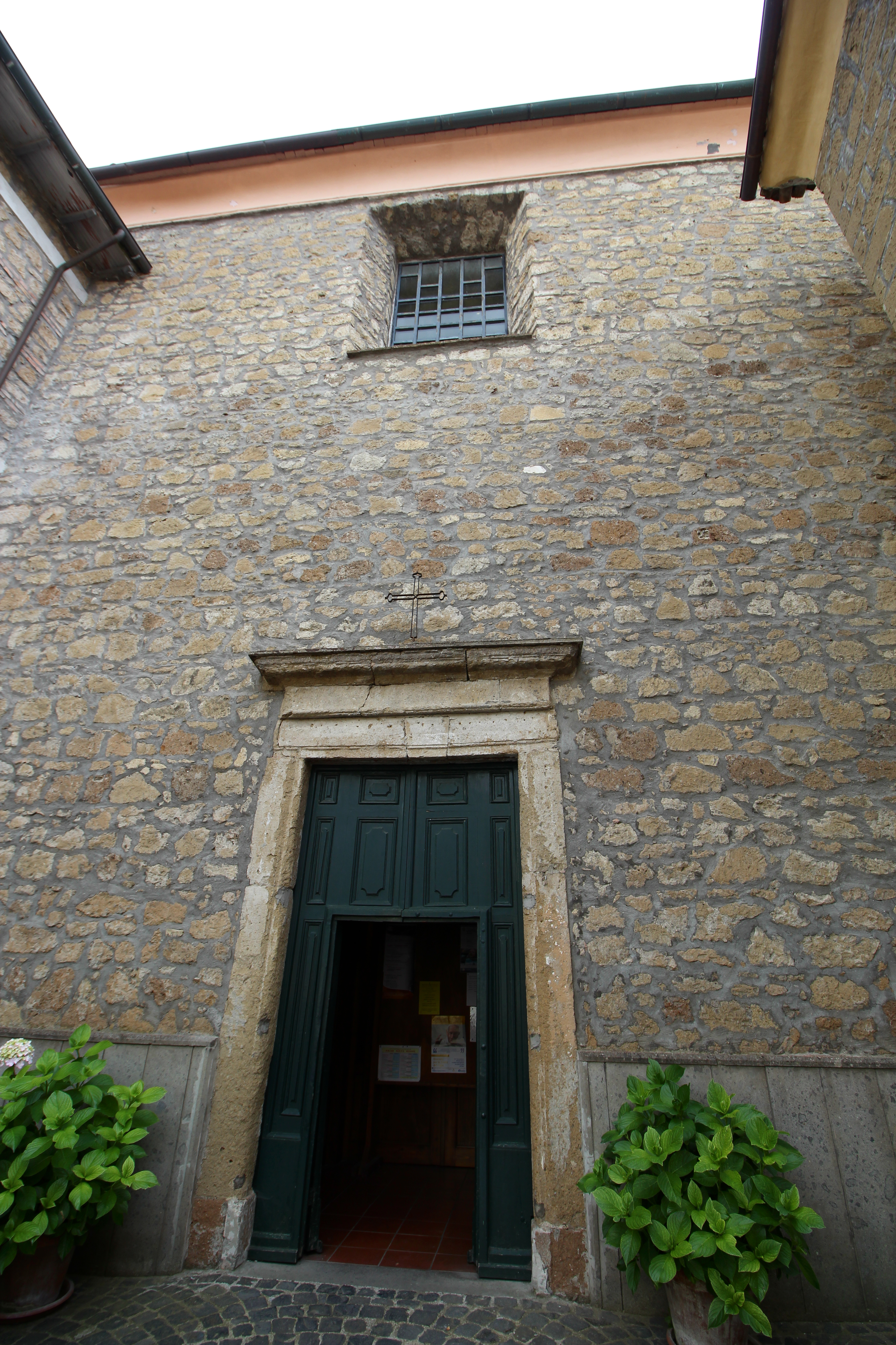 Church Santa Maria dell'Immacolata Concezione, Onano, Province of Viterbo, Lazio, Italy